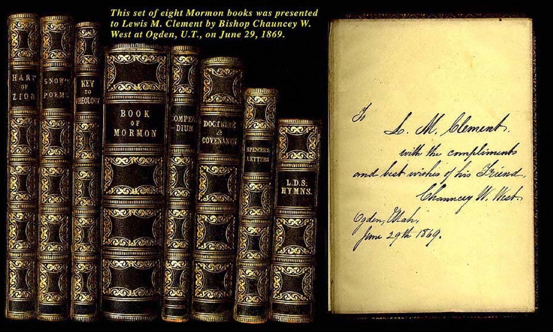 A personalized leather bound copy of the 1852 British edition of the Book of Mormon and seven other Mormon-related books presented and inscribed by Bishop Chauncey W. West to Lewis M. Clement, Chief Assistant Engineer of the Central Pacific Railroad, at Ogden, U.T., on June 29, 1869.